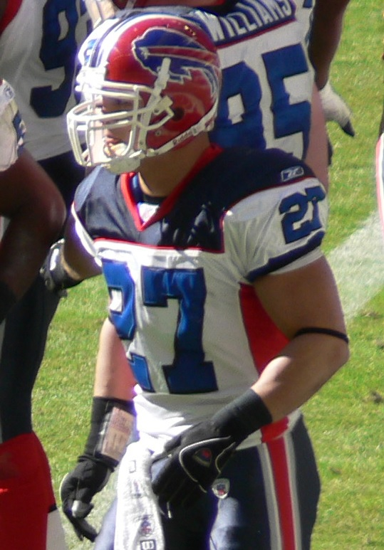 Chris Kelsay, Larry Tripplett, and Coy Wire of the Buffalo Bills defensive line.